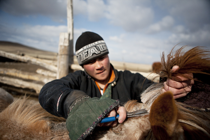 Each spring, nomads cut the long winter manes off of their horses.